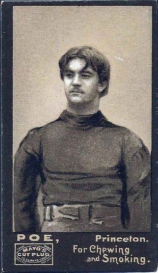 American football card, Neilson Poe displayed on the #302 card by Mayo.